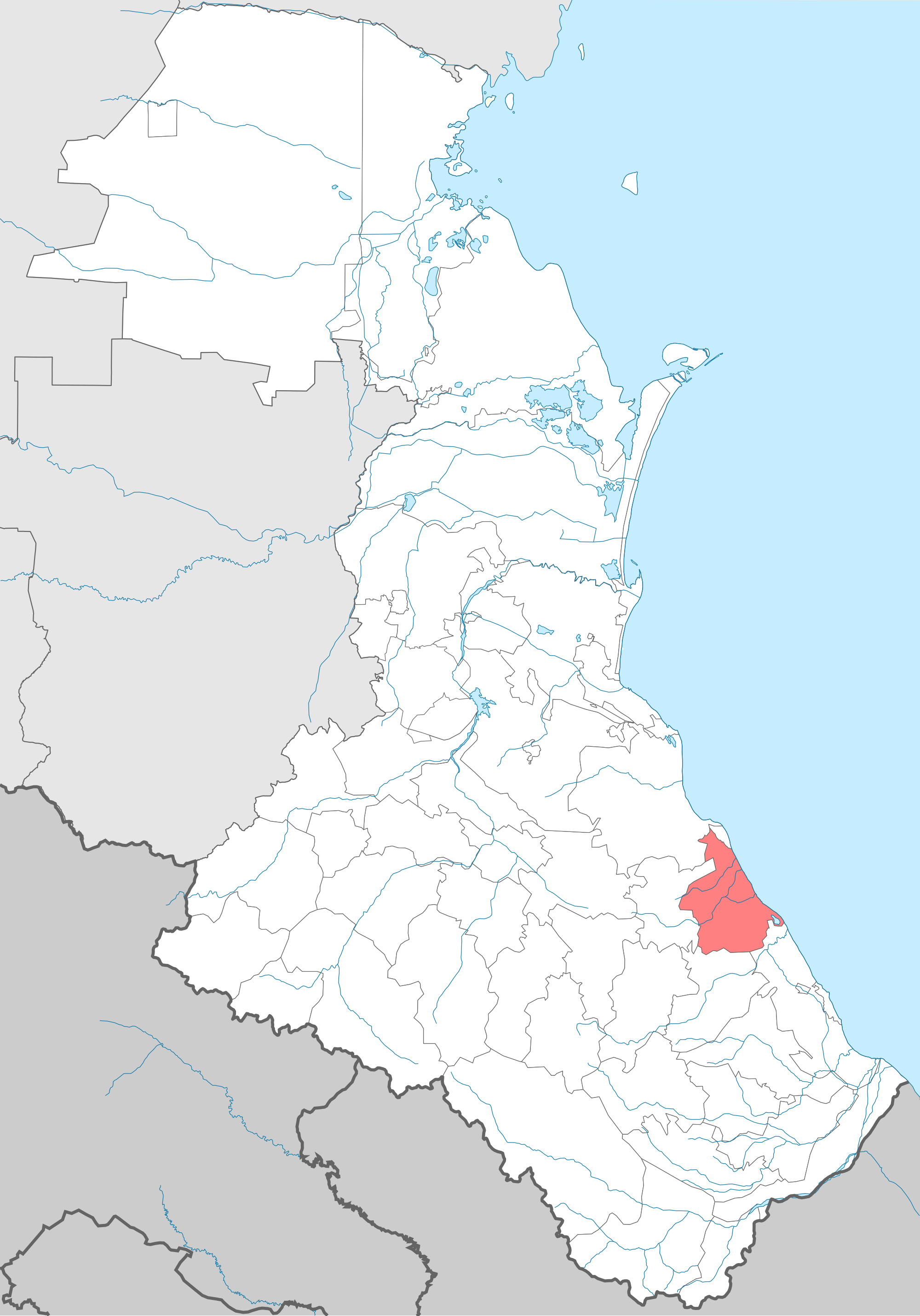 Kaiakentsky district locator map